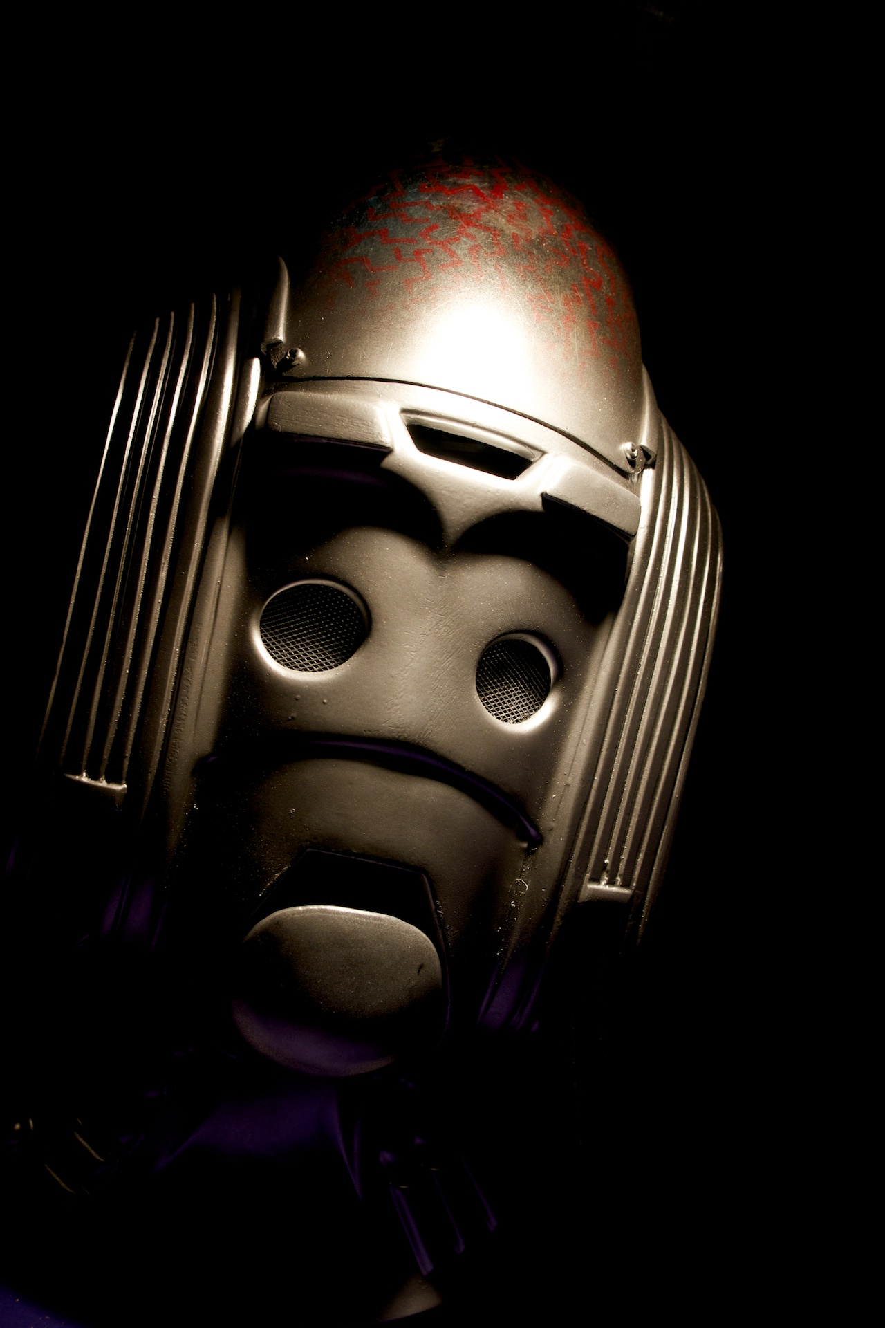 80s Cyberman Doctor Who Experience